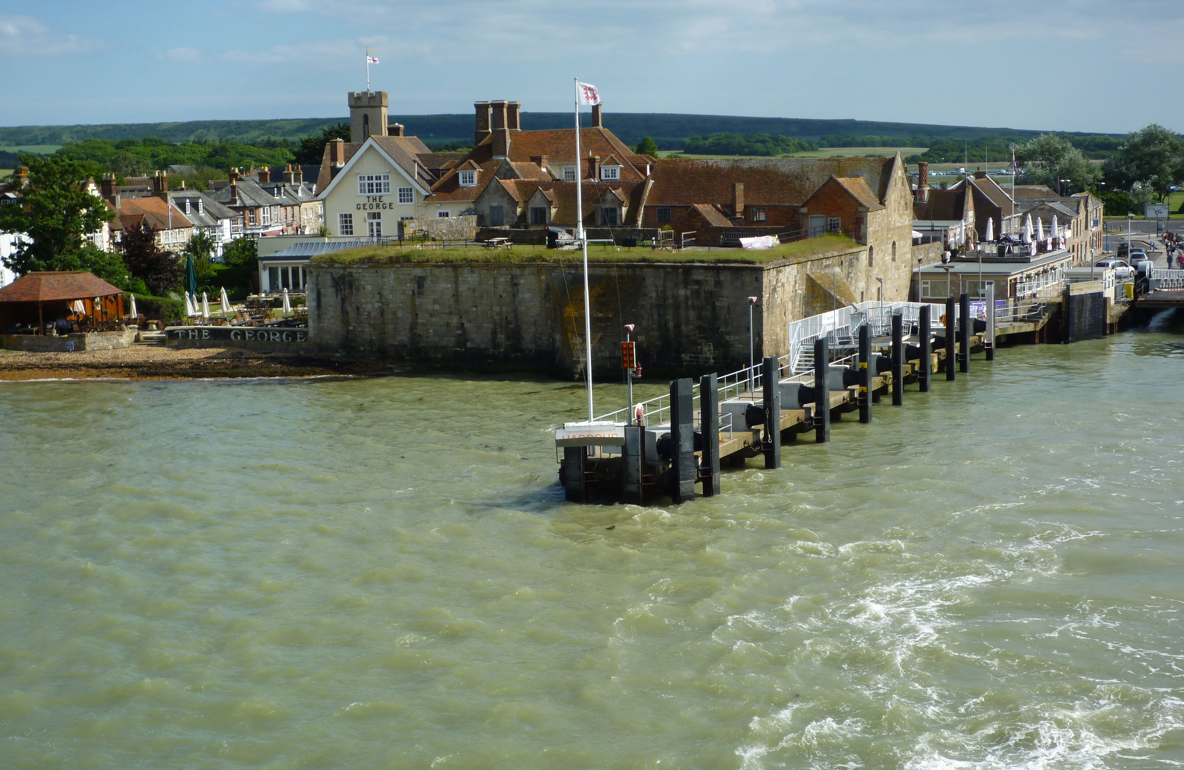 Yarmouth - Harbour with Castle.jpg